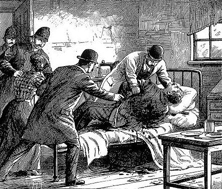 Police finding the body of George Gardstein, December 1910